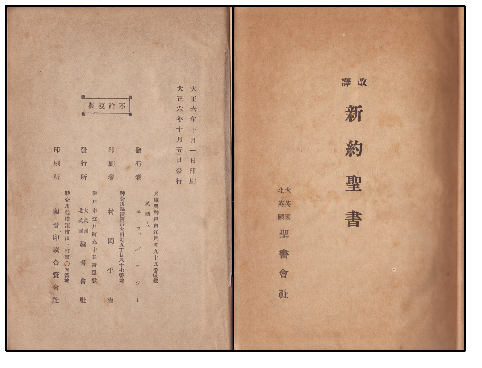 The New Testament, Japanese Revised Version (Taishô-kaiyaku), British Foreign Bible Society, Japan Agency, Kobe, 1917 Title page / Colophon